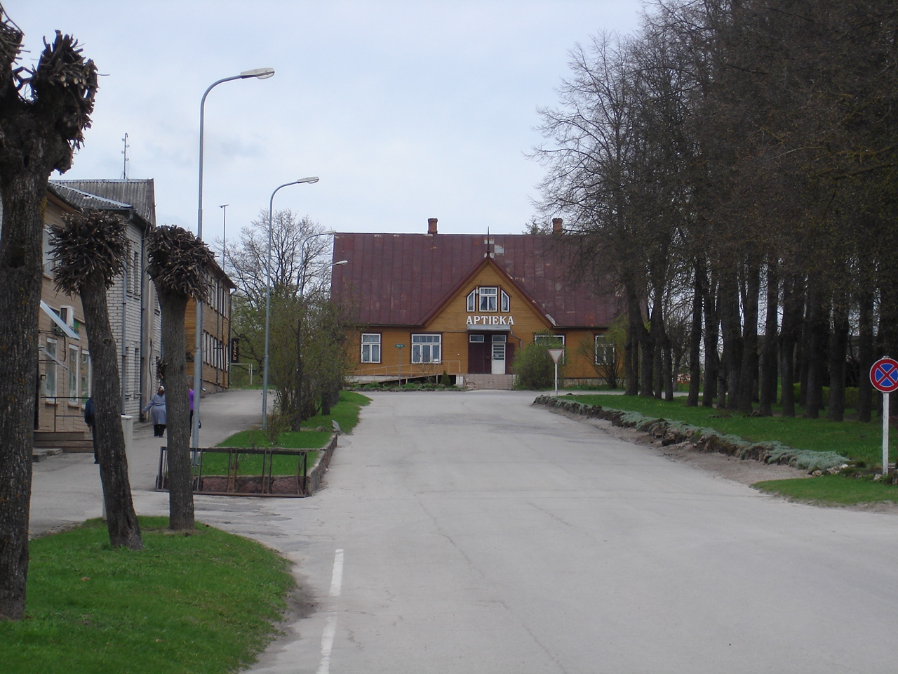 aptieka